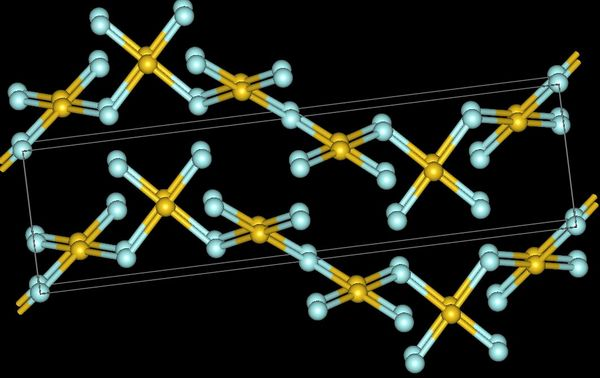 Gold fluoride AuF3 structure Journal = JOURNAL OF THE AMERICAN CHEMICAL SOCIETY Year = 1991 Volume = 113 Page = 4192-4198 Title = Silver Trifluoride: Preparation, Crystal Structure, Some Properties, and Comparison with AuF3 Authors = Zemva B., Lutar K., Jesih A., Casteel W.J., Wilkinson A.P., Cox D.E., Von Dreele R.B., Borrmann H., Bartlett N.